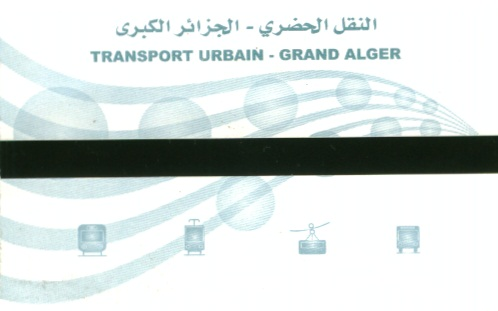 A single trip ticket for Algiers Metro